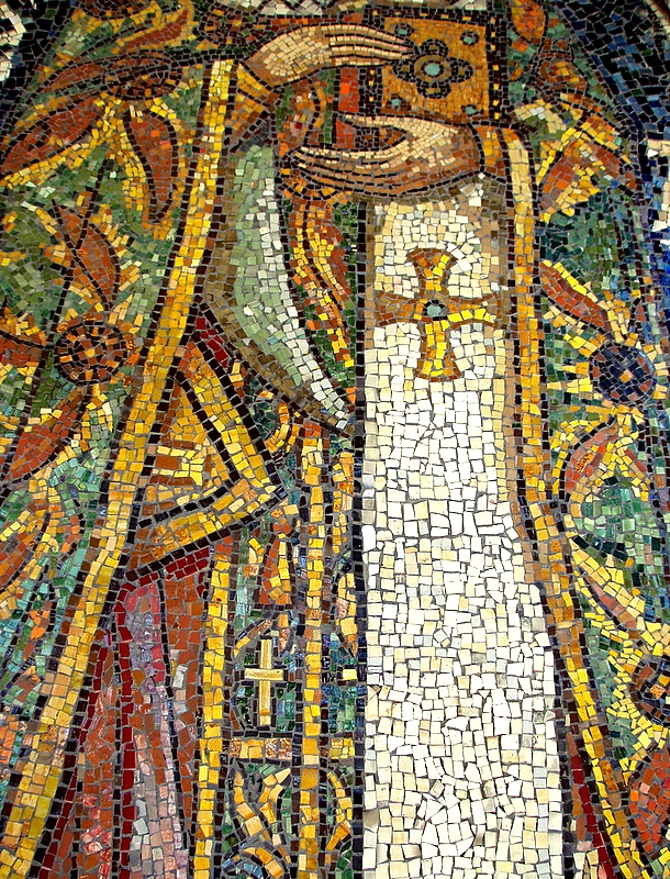 Byzantine-style mosaic at a church in Bucharest